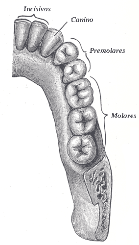 Permanent teeth of right half of lower dental arch, seen from above.. Translation in spanish of file File:Gray997.png